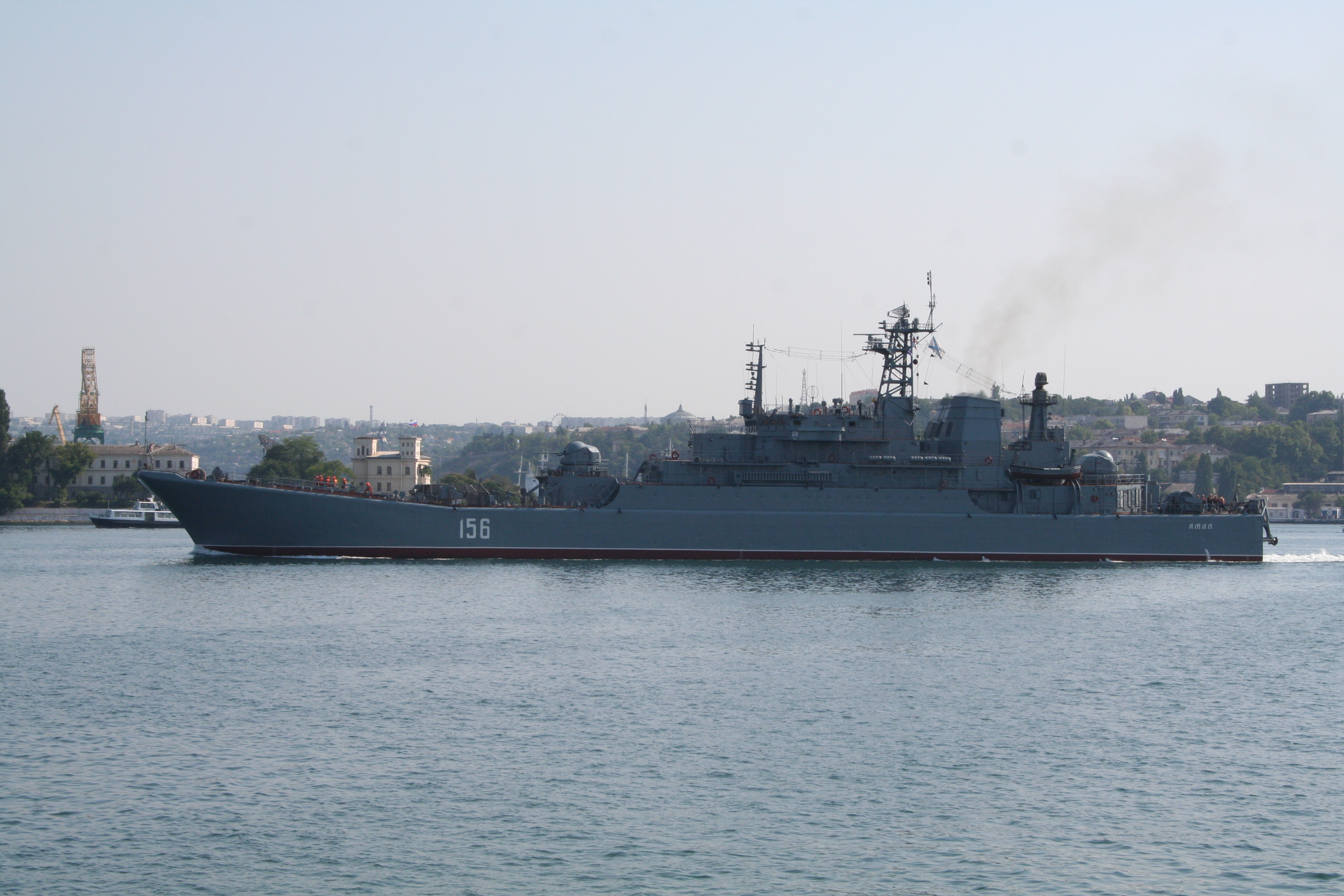 Russian large landing ship Yamal in Sevastopol.